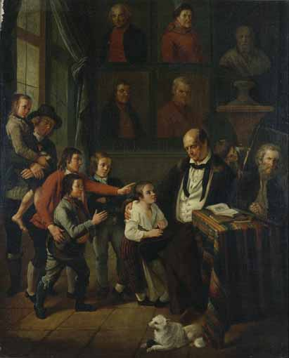 The bavarian publisher Johann Baptist Strobl (1748-1805)